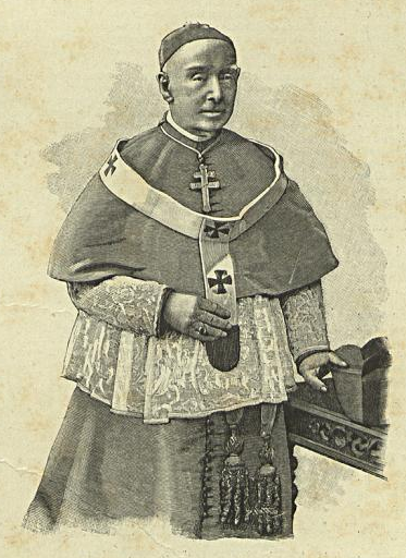 José António Pereira Bilhano (1801-1890), Archbishop of Évora